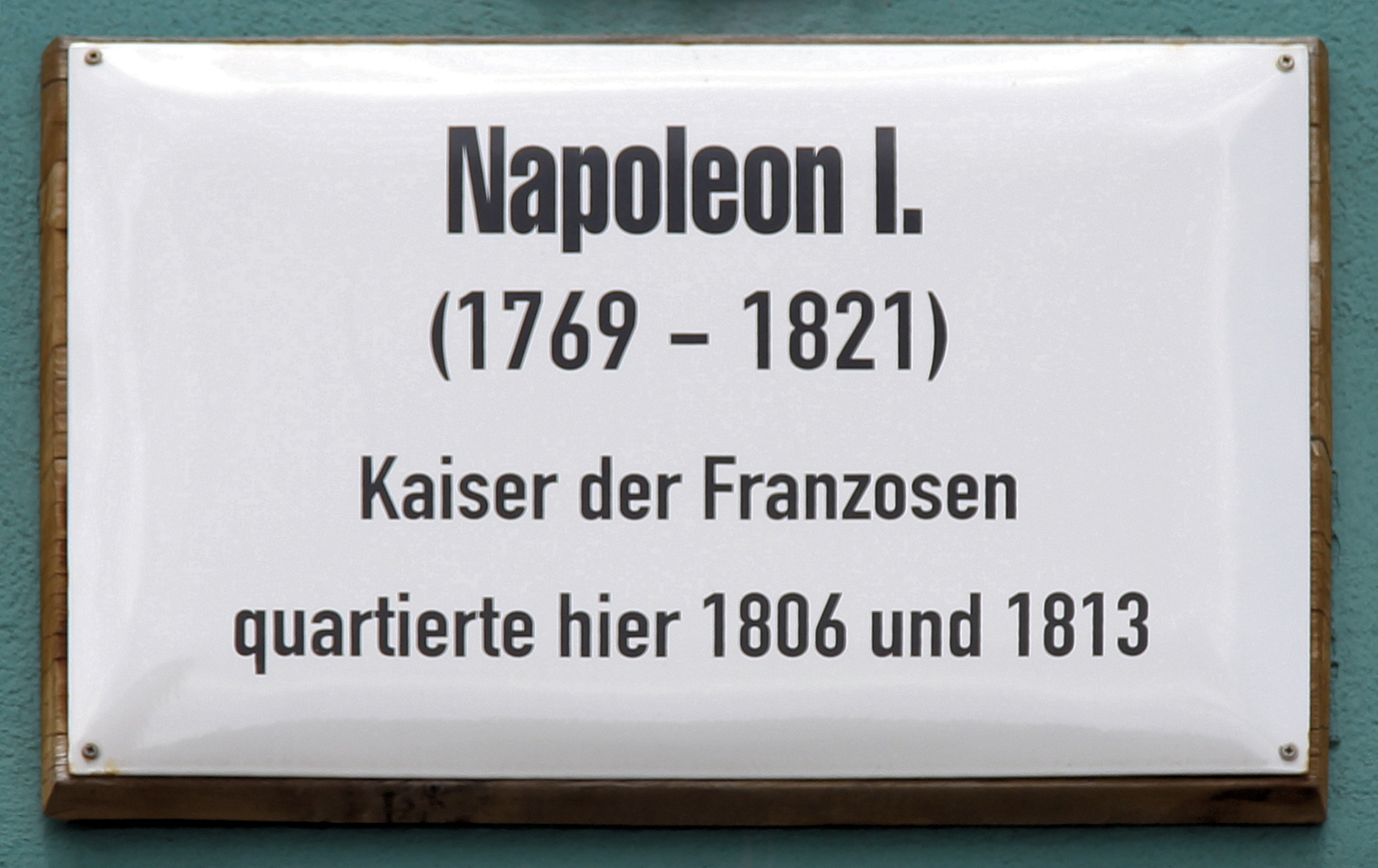 Memorial plaque, Napoleon Bonaparte, Markt 22, Lutherstadt Wittenberg, Germany Koordinate:51°52′2″N 12°38′34″E / 51.86722°N 12.64278°E